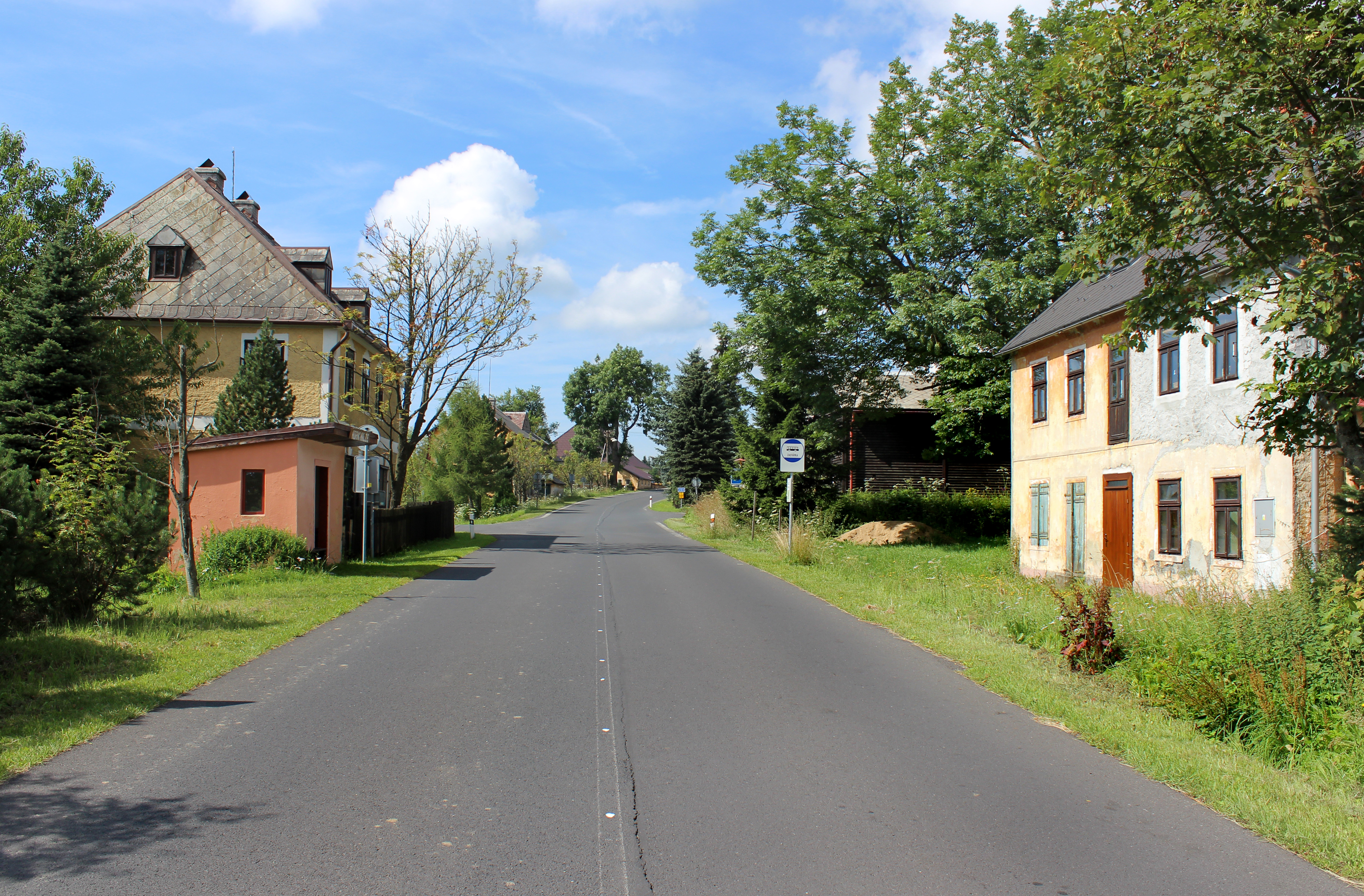 Bus stop in Horní Halže, part of Měděnec, Czech Republic.